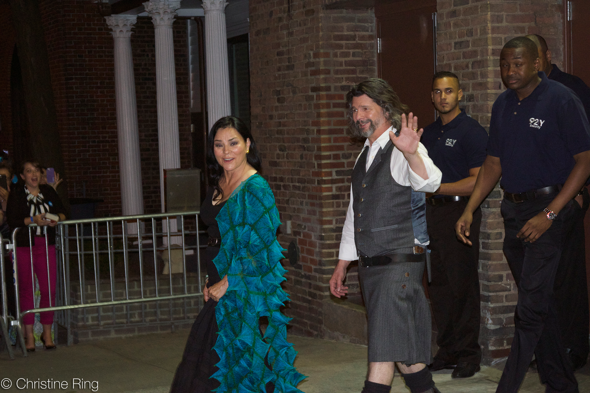 Author Diana Gabaldon and showrunner Ronald D. Moore at 92nd Street Y for the New York premiere of the first season of the TV series Outlander, which is based on Gabaldon's novel of the same title.